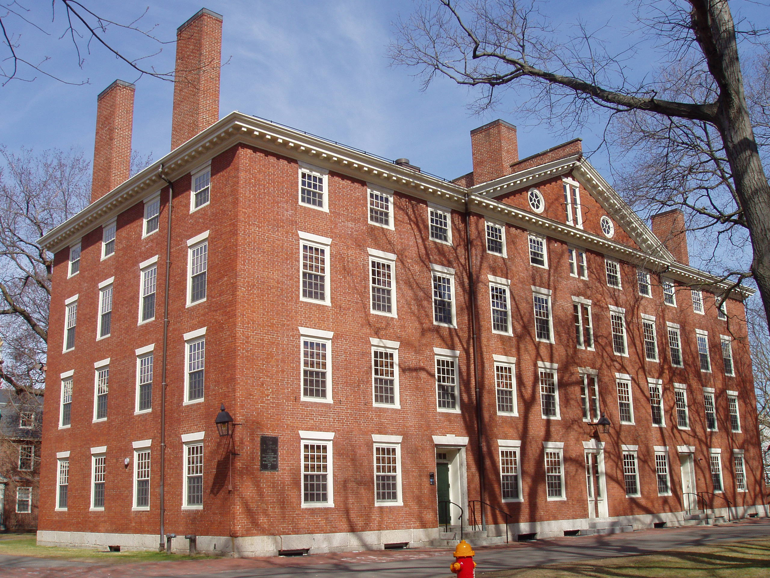 Stoughton Hall, Harvard University, Cambridge, Massachusetts, USA.